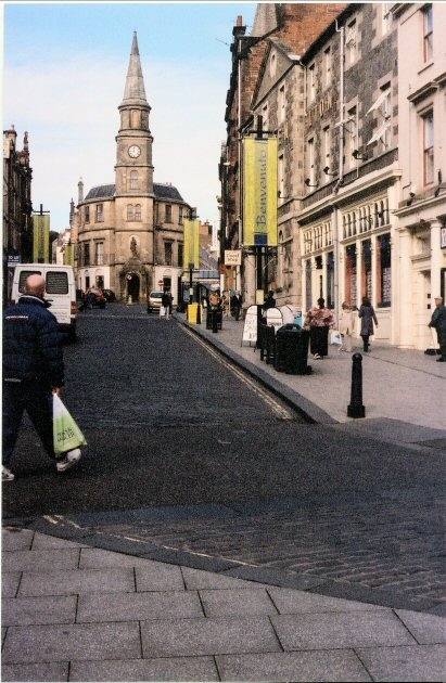 King Street, Stirling View up King street stirling to The Steeple